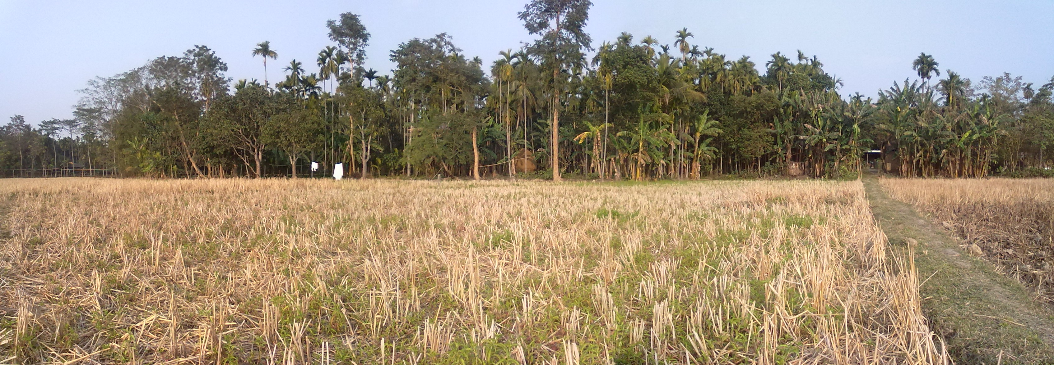 A panoramic view of agricultural fields in Kalaigaon